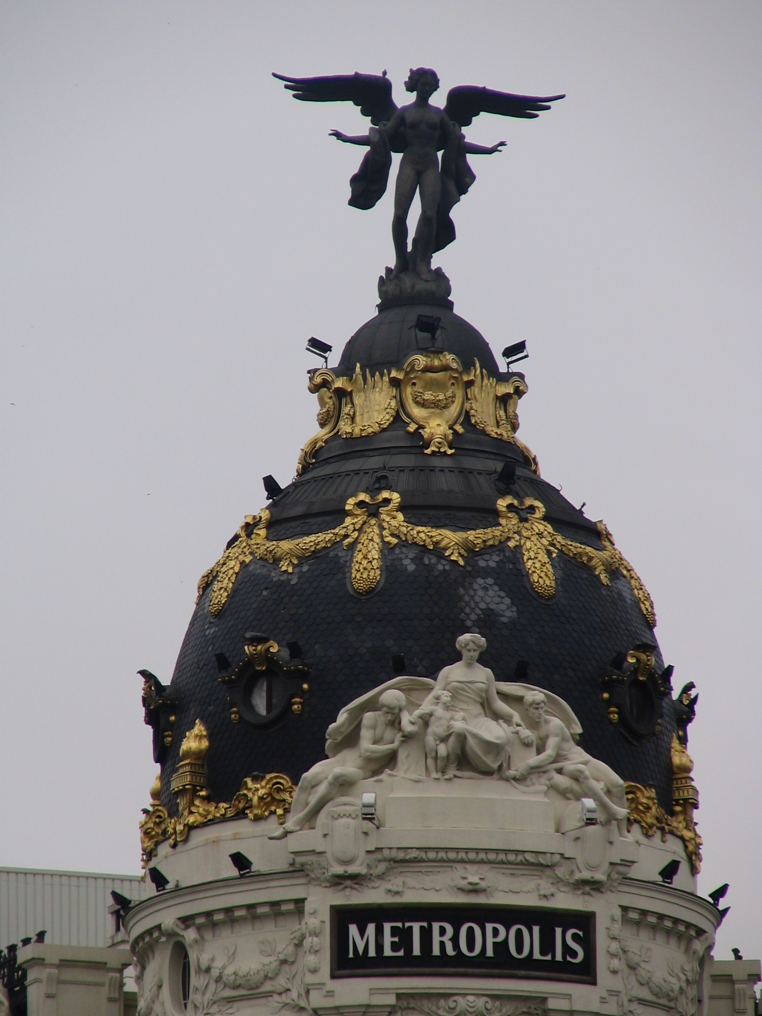 Top of the Metropolis Building in Madrid (Spain). Projected by Jules and Reymond Fevrier in 1906 and built from 1907 to 1910. The winged victory, a work by Federico Coullaut-Valera, was placed in 1975.